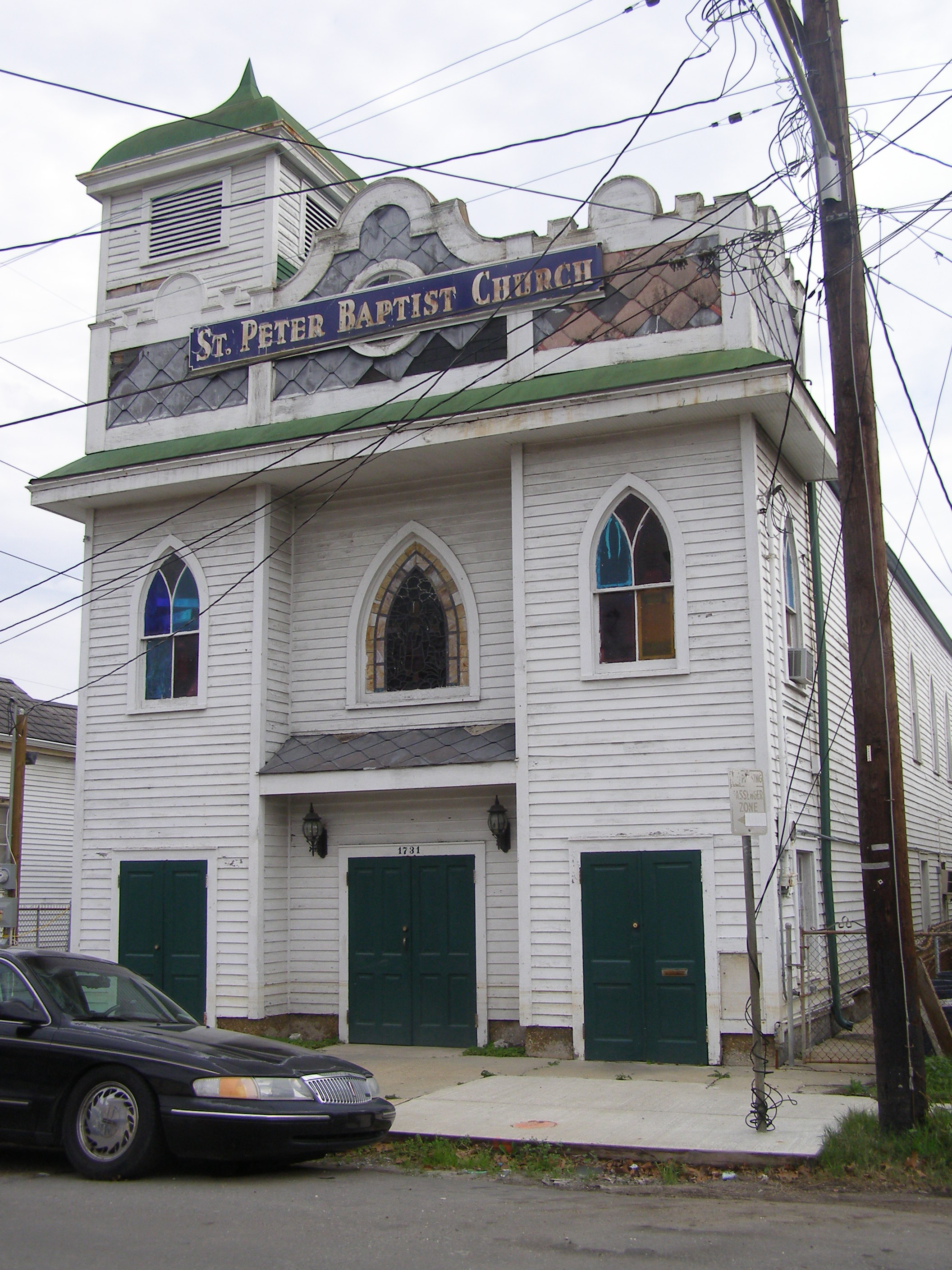 St Peter Baptist Church, 7th Ward of New Orleans, Louisiana. On New Orleans Street off St. Bernard Avenue towards Roman Street.